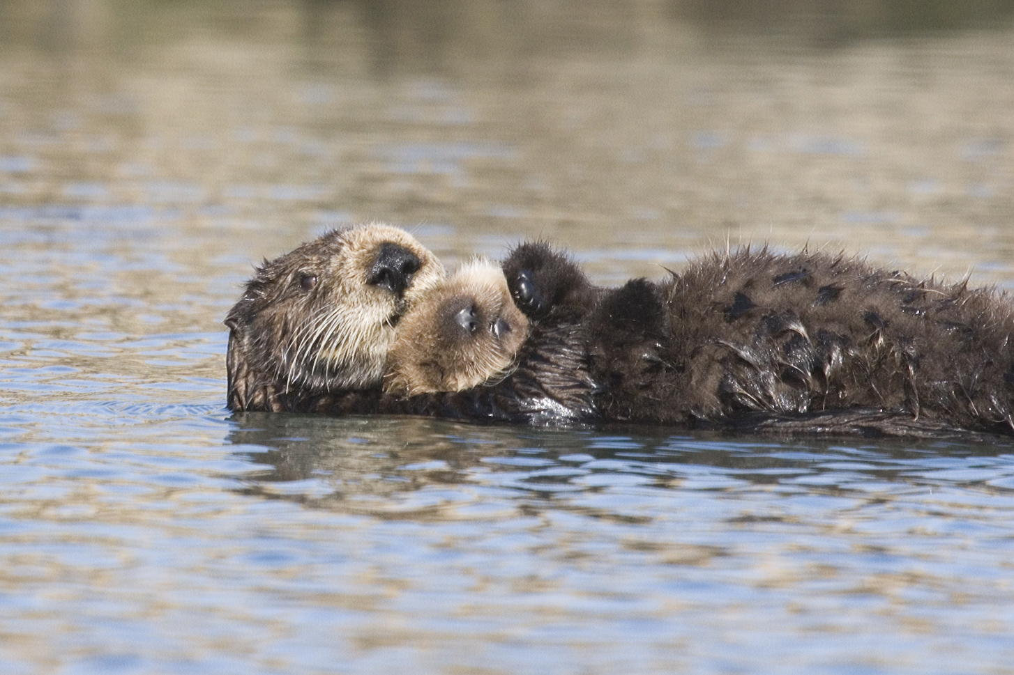 Sea Otter with Pup in her arms, Morro Bay, CA, March 23, 2007. Shot with a Canon 20D with 100-400mm IS lens handheld from a kayak, shot in RAW, sharpened in Photoshop CS2. Photo by Mike Baird 23mar2007 23march2007